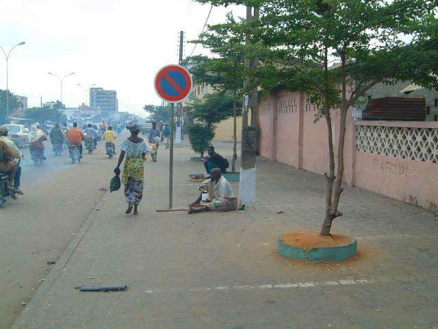 The Boulevard of Saint Michel de Cotonou, Cotonou, Benin